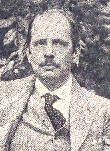 Portrait of the Bulgarian philosopher Dimitar Mihalchev, Prague